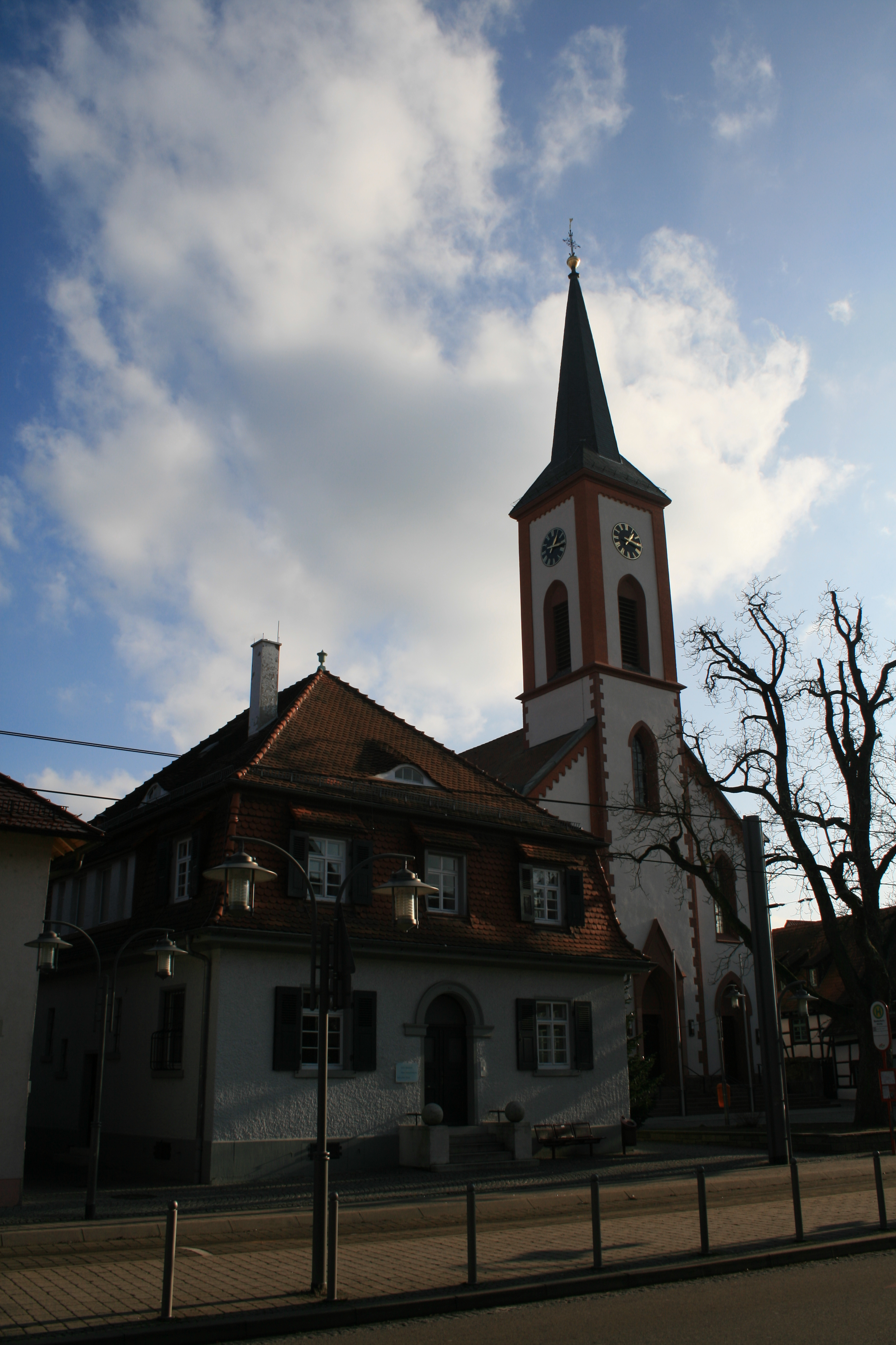 new renovated prot. Church in Stutensee-Blankenloch, Germany